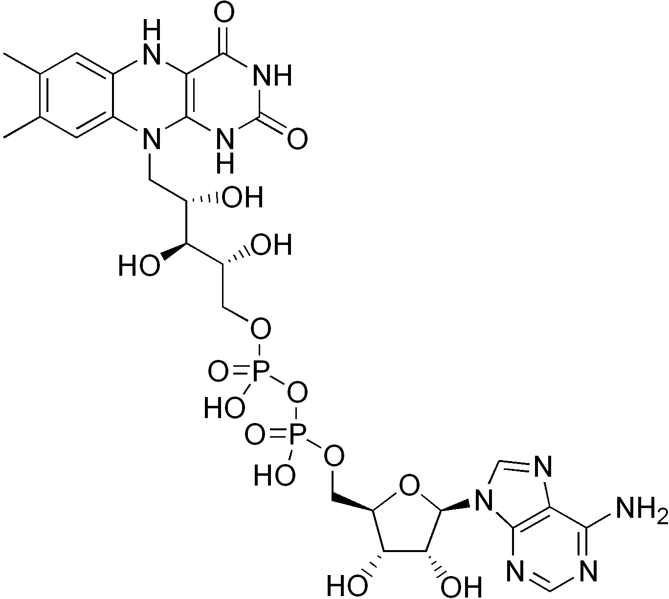 Chemicals structure of FADH2 created with ChemDraw